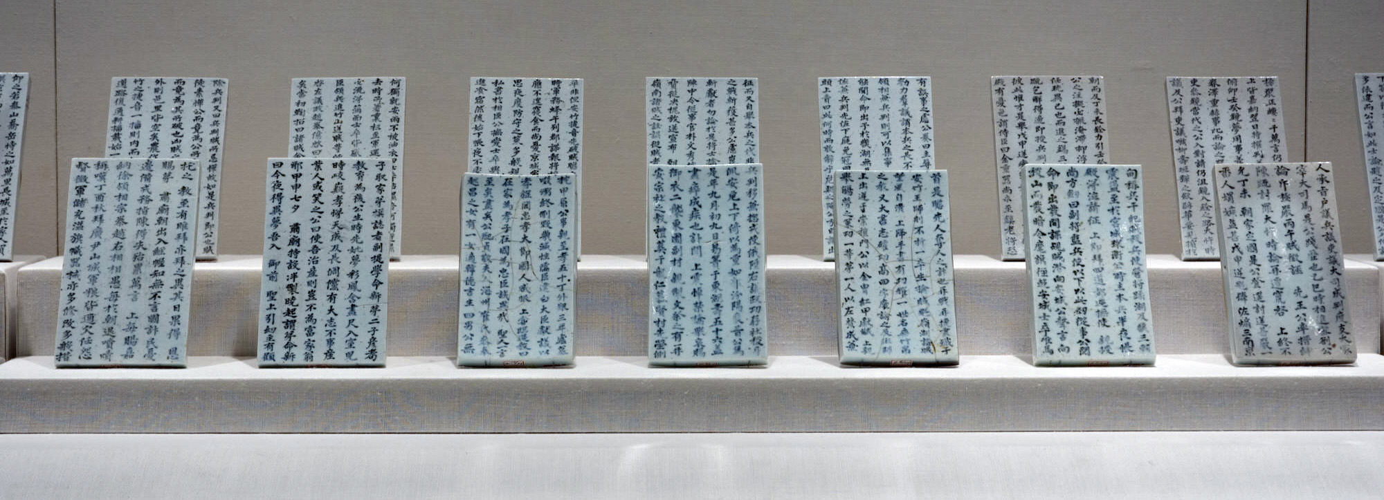 Korea; Tablets; Ceramics